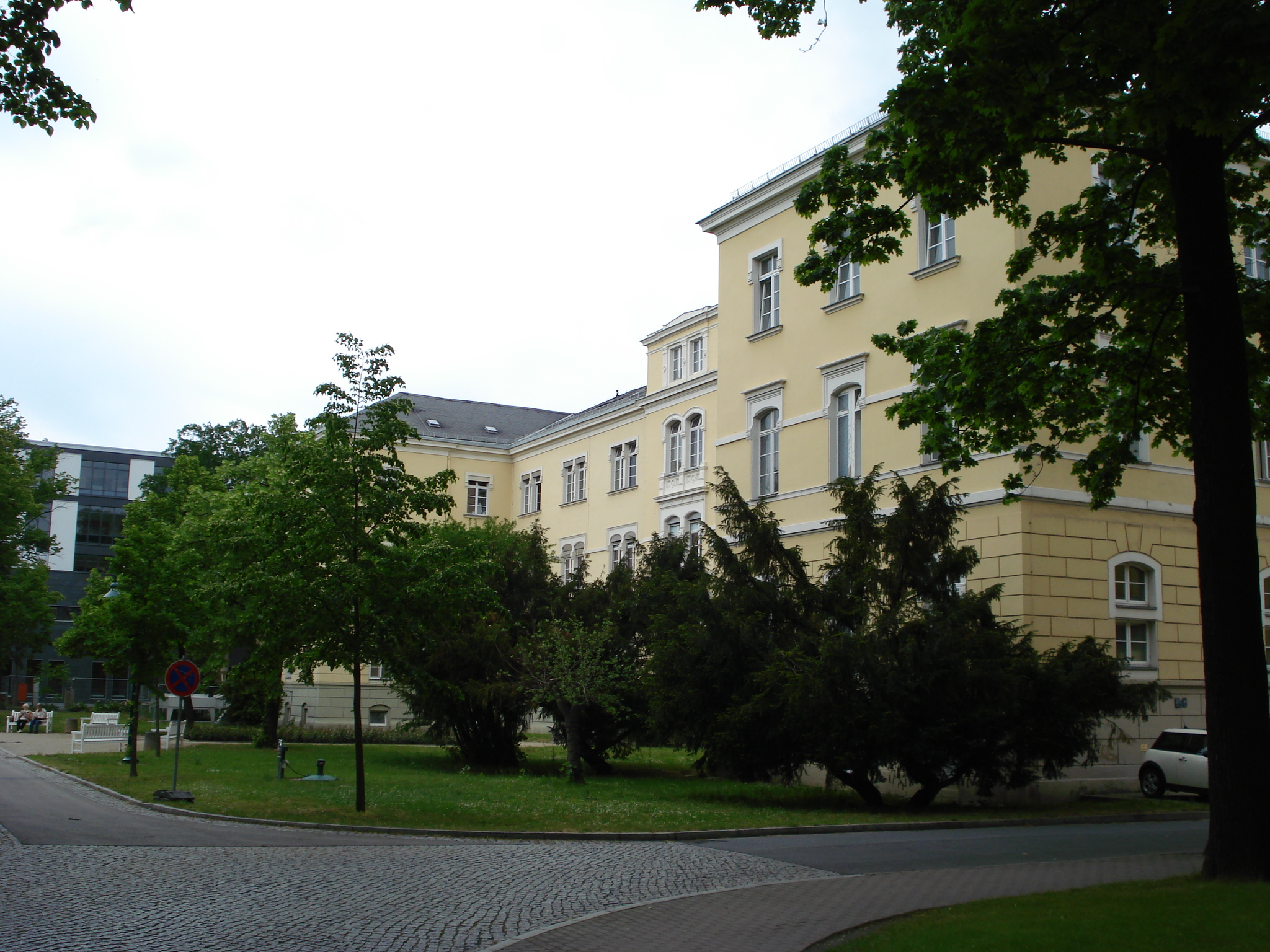 The exterior of the Dresden Friedrichstadt Hospital